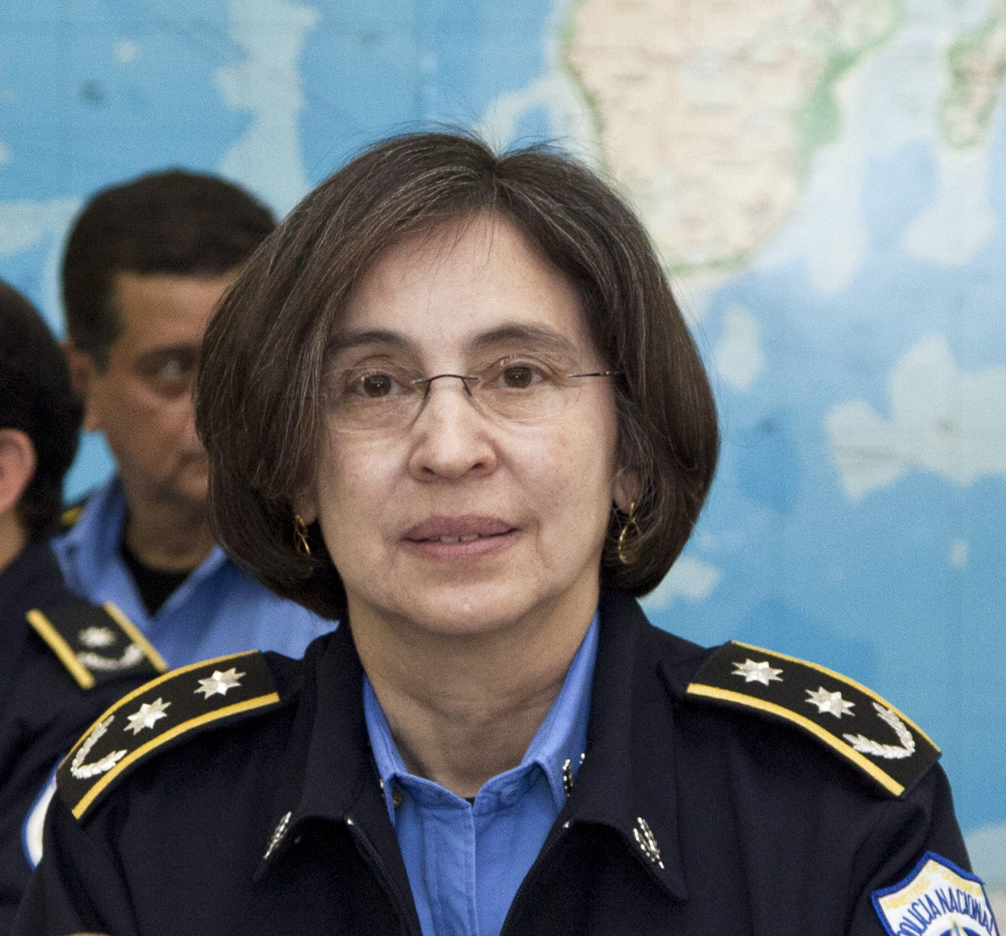 Managua (Nicaragua), 21 de agosto 2013. El Canciller Ricardo Patiño, junto al Ministro del Interior del Ecuador, escucharon la presentación de la la jefa de la Policía de Nicaragua, Aminta Granera.